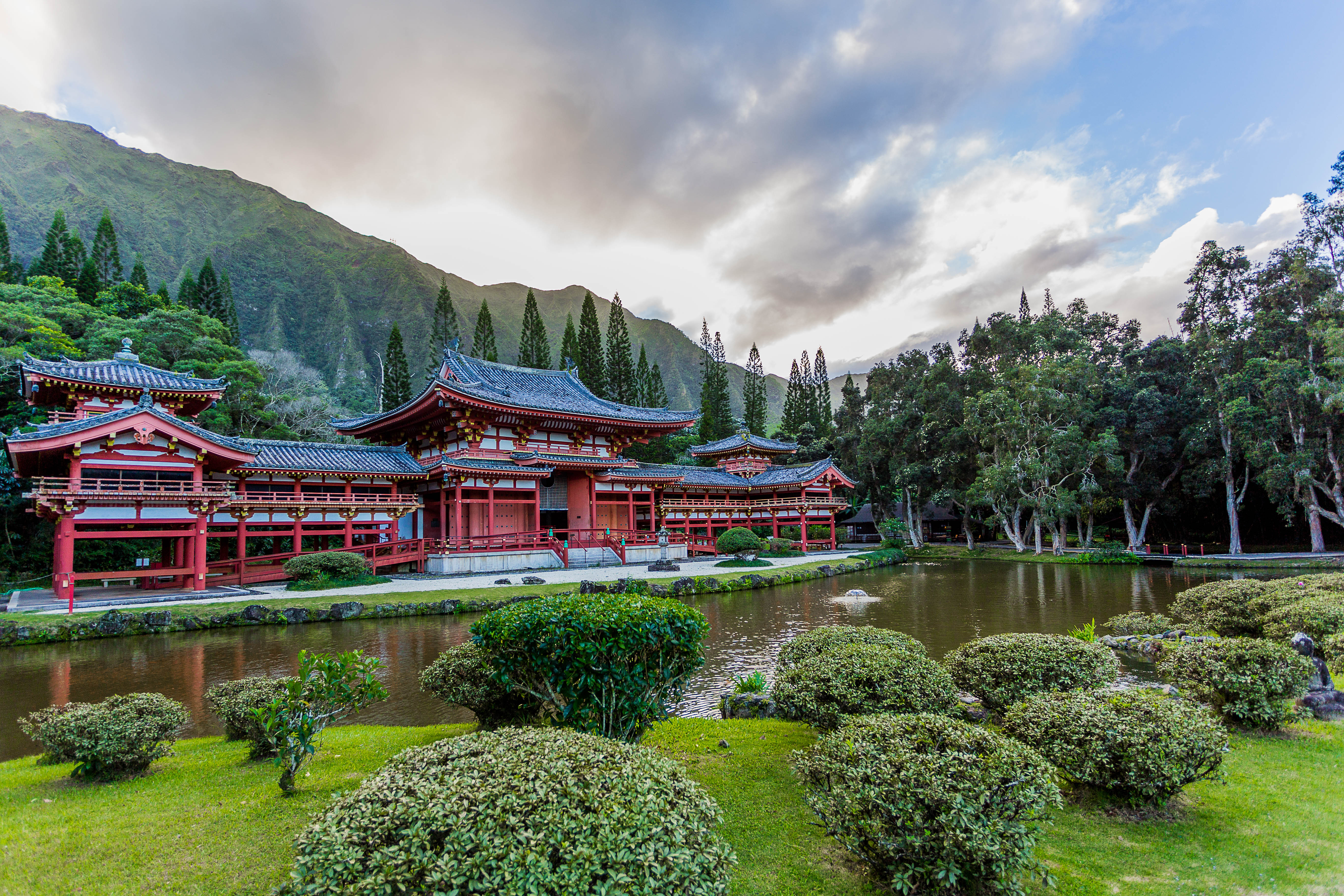 Byodo-In Temple is a non-denominational shrine located on the island of O'ahu in Hawai'i at the Valley of the Temples.